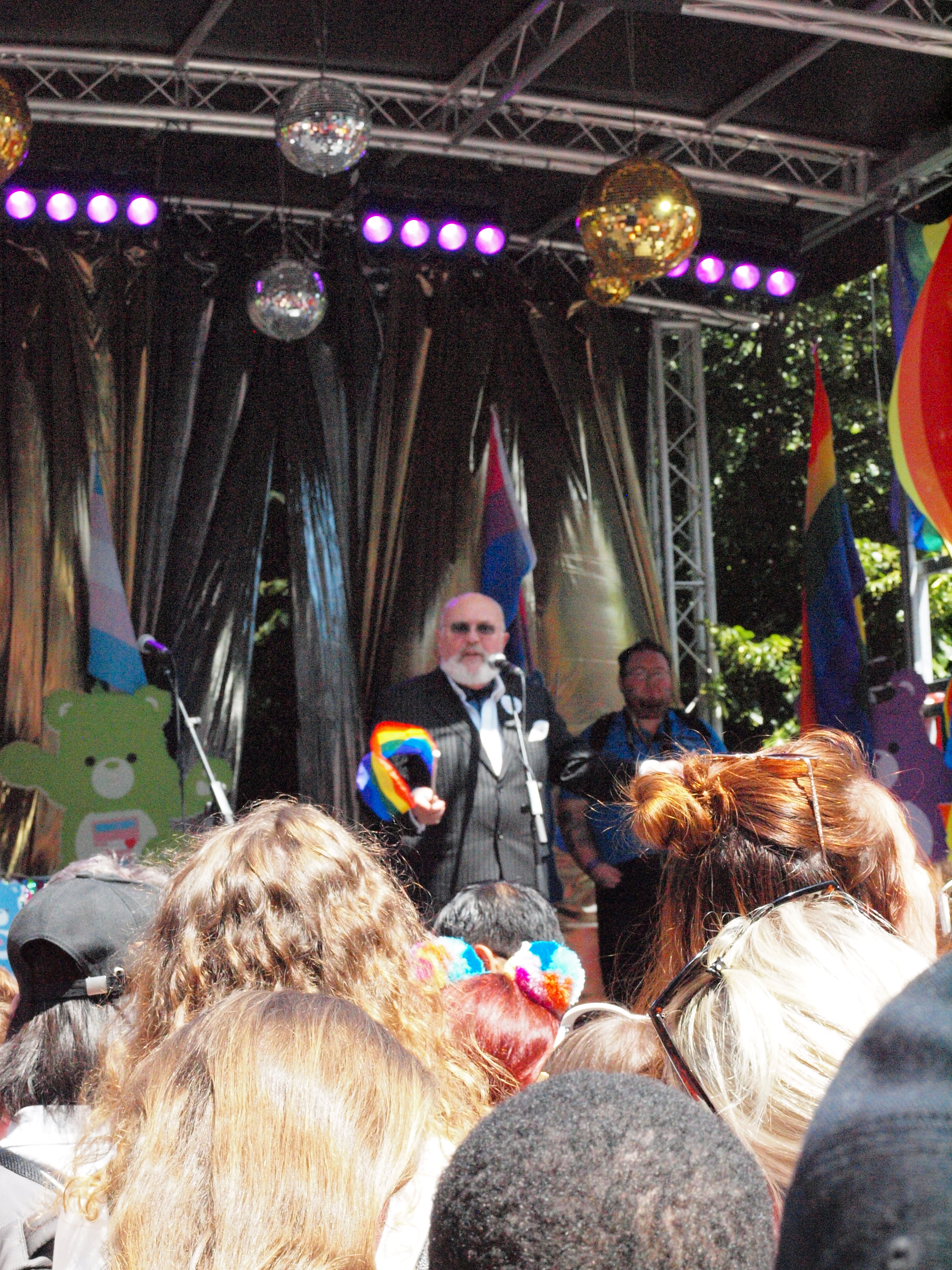 Pictures from the Dublin LGBTQ+ Pride Parade 2018 at St Stephen's Green